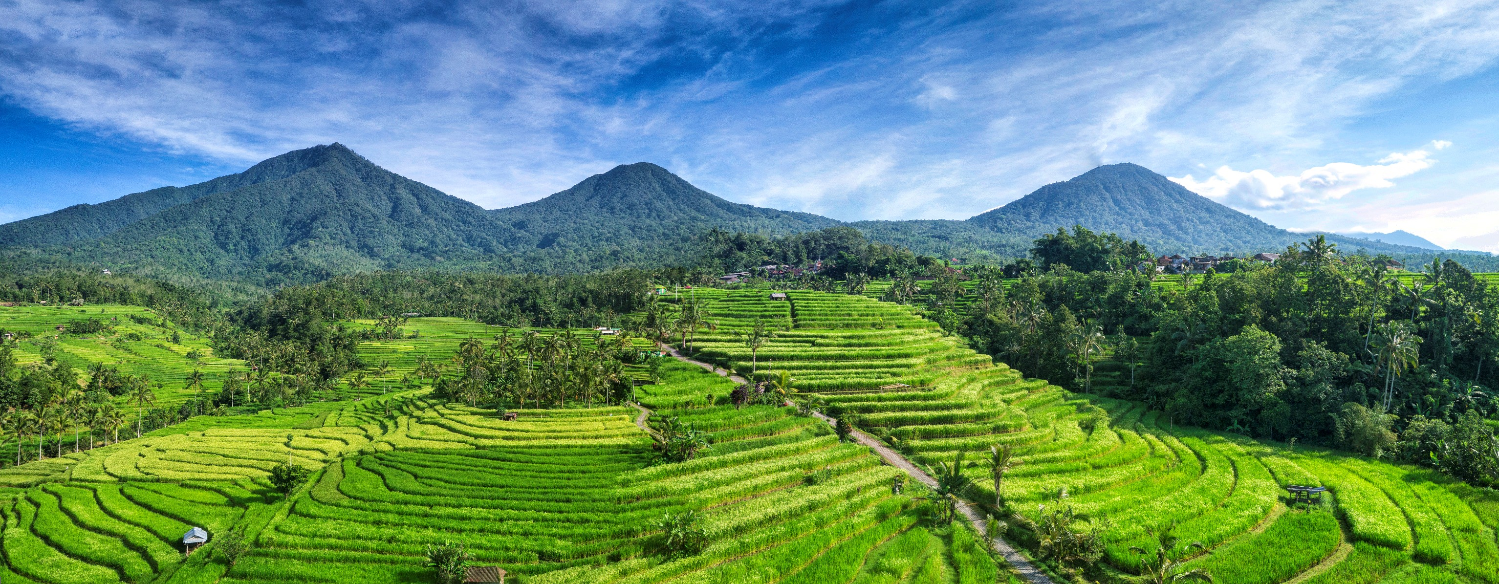 Jatiluwih, UNESCO World Heritage site